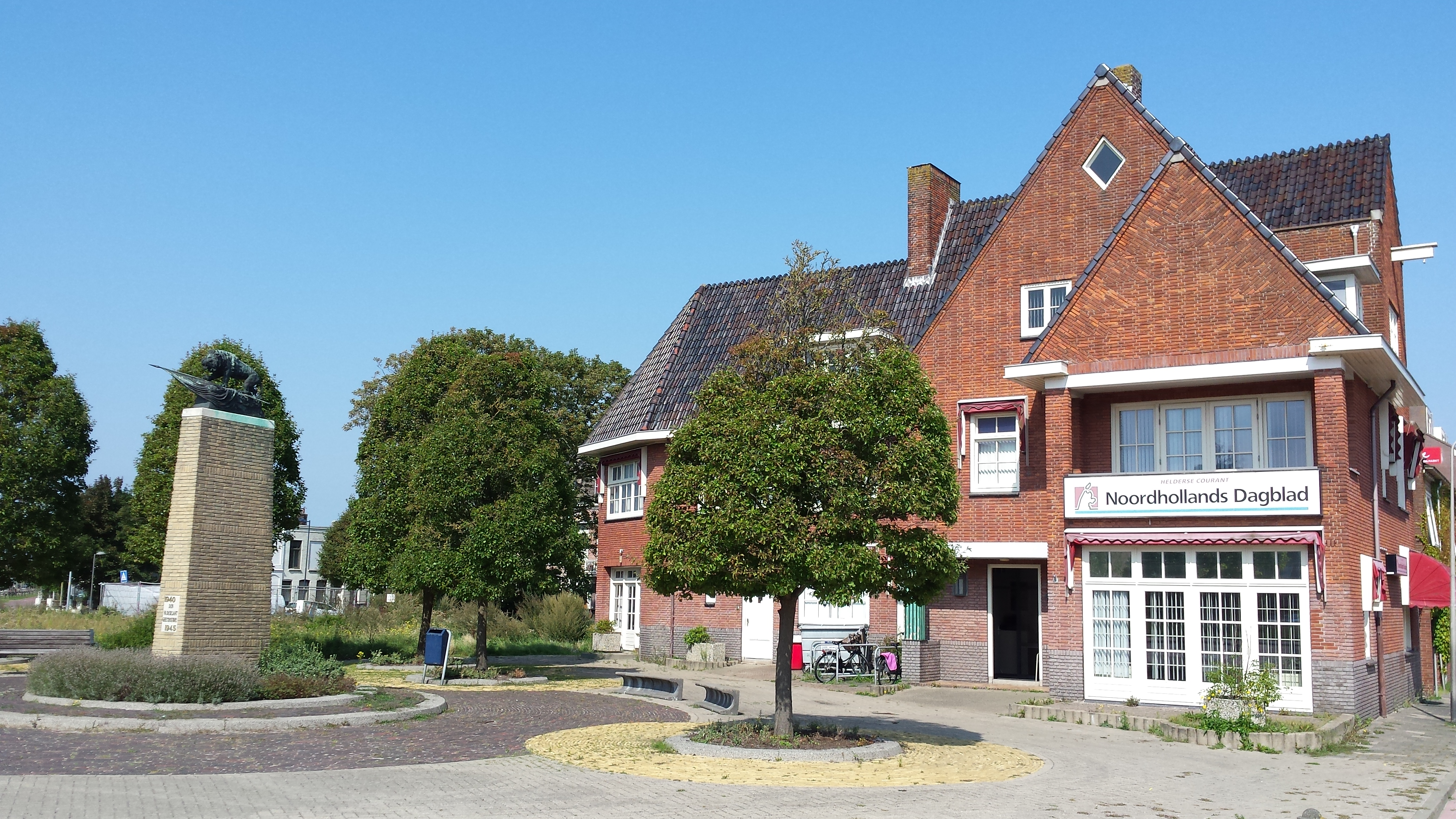 Den Helder - Office building of the local newspaper